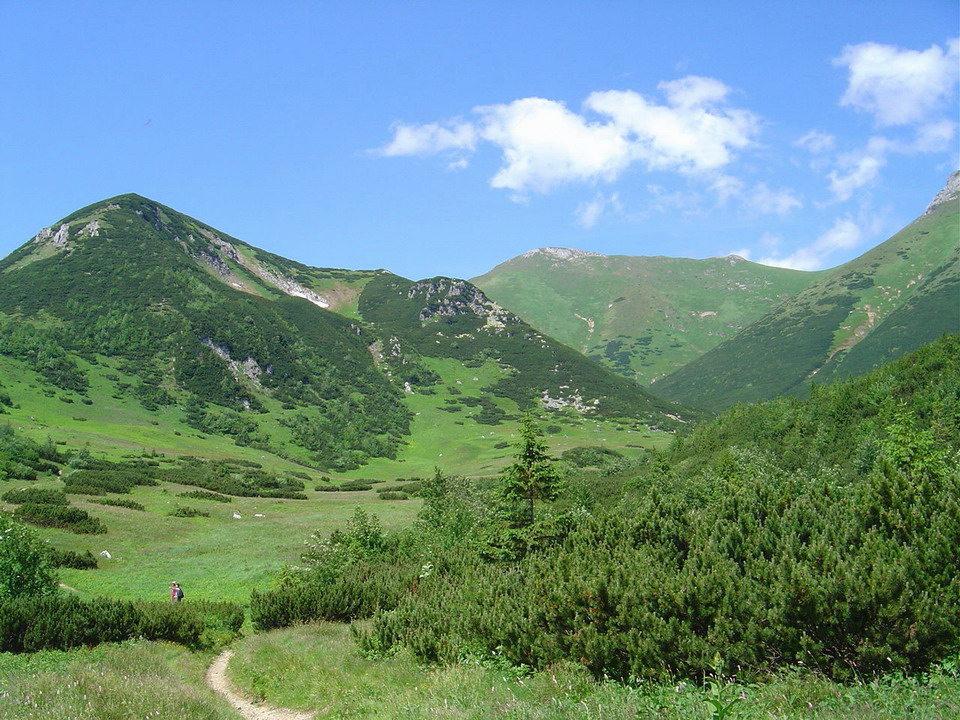 Predne Medodoly and wood meadow of Jeruzalem